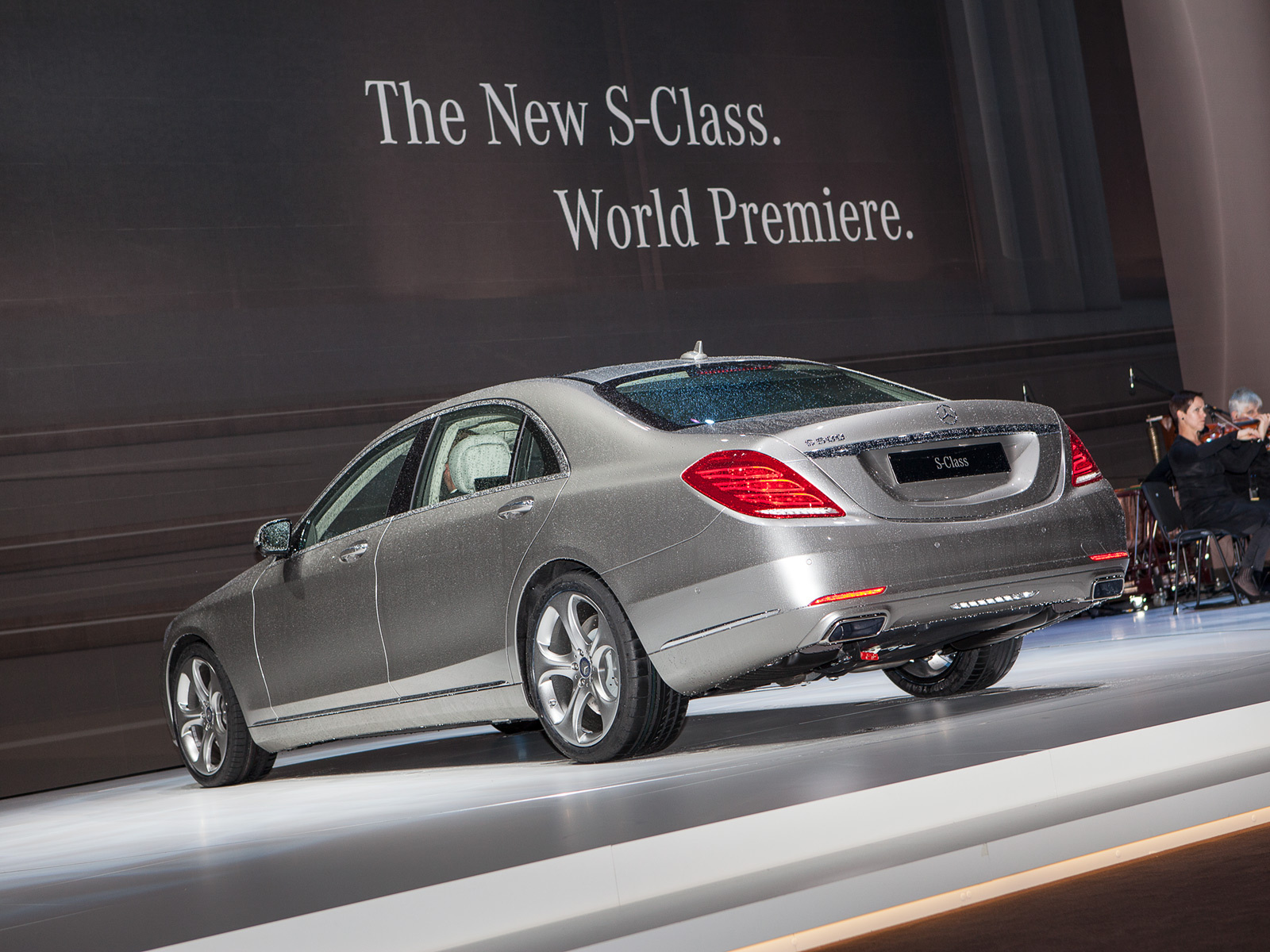 Photo of the portal DRIVE of the new Mercedes-Benz S-Class (W222) from its presentation in Hamburg.